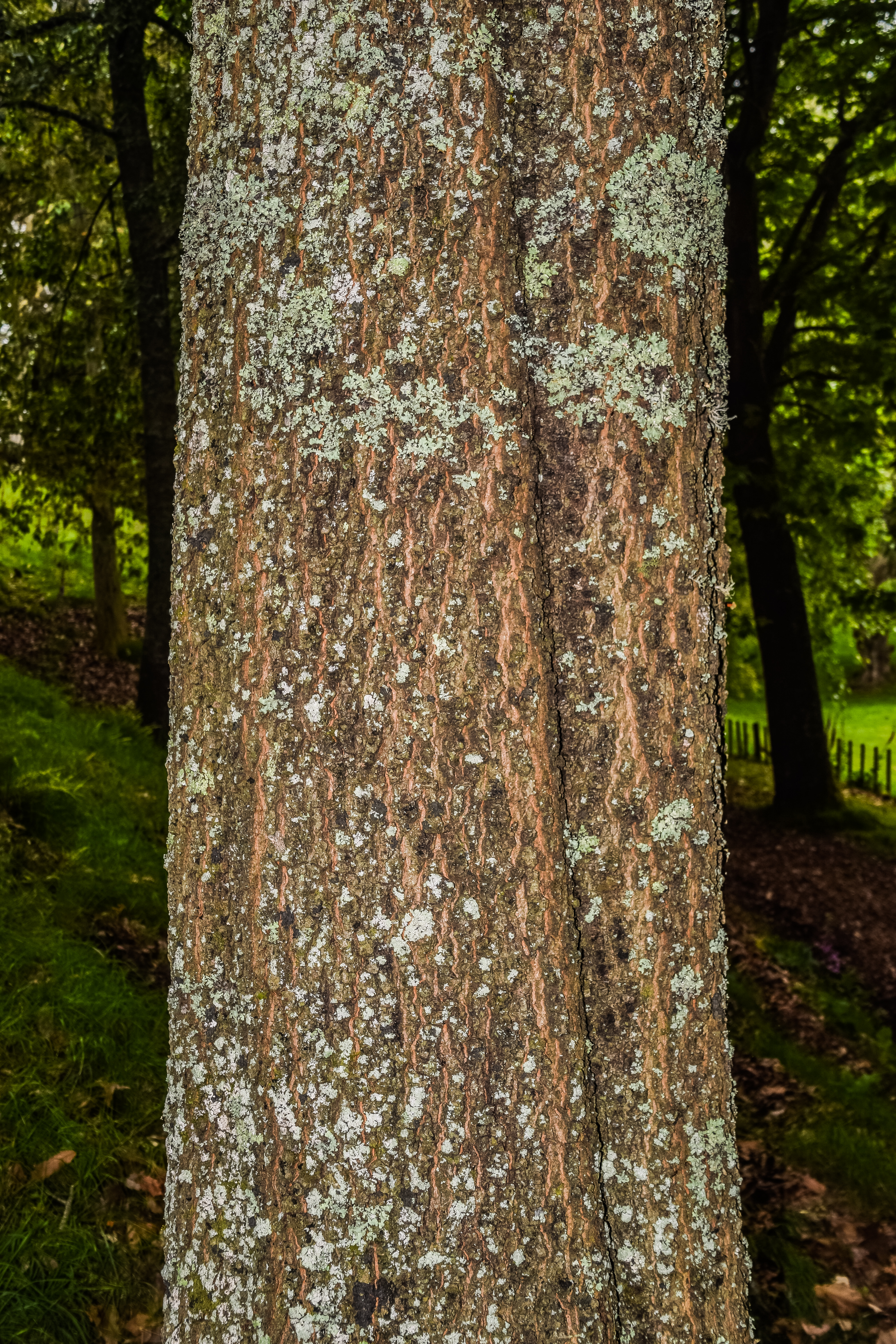 Bark of Quercus acutifolia in Hackfalls Arboretum, Gisborne Region, New Zealand